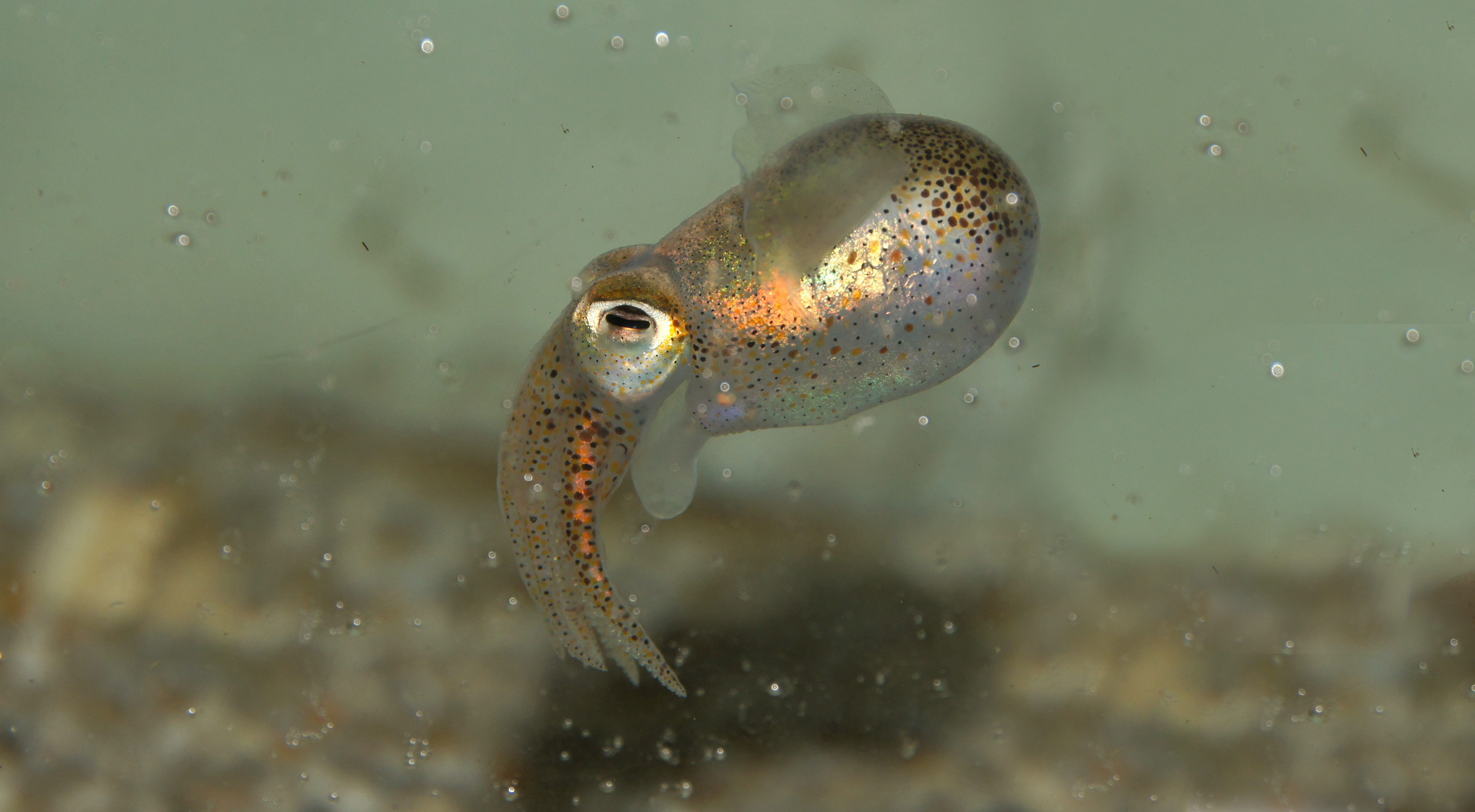 Atlantic bobtail (Sepiola atlantica)